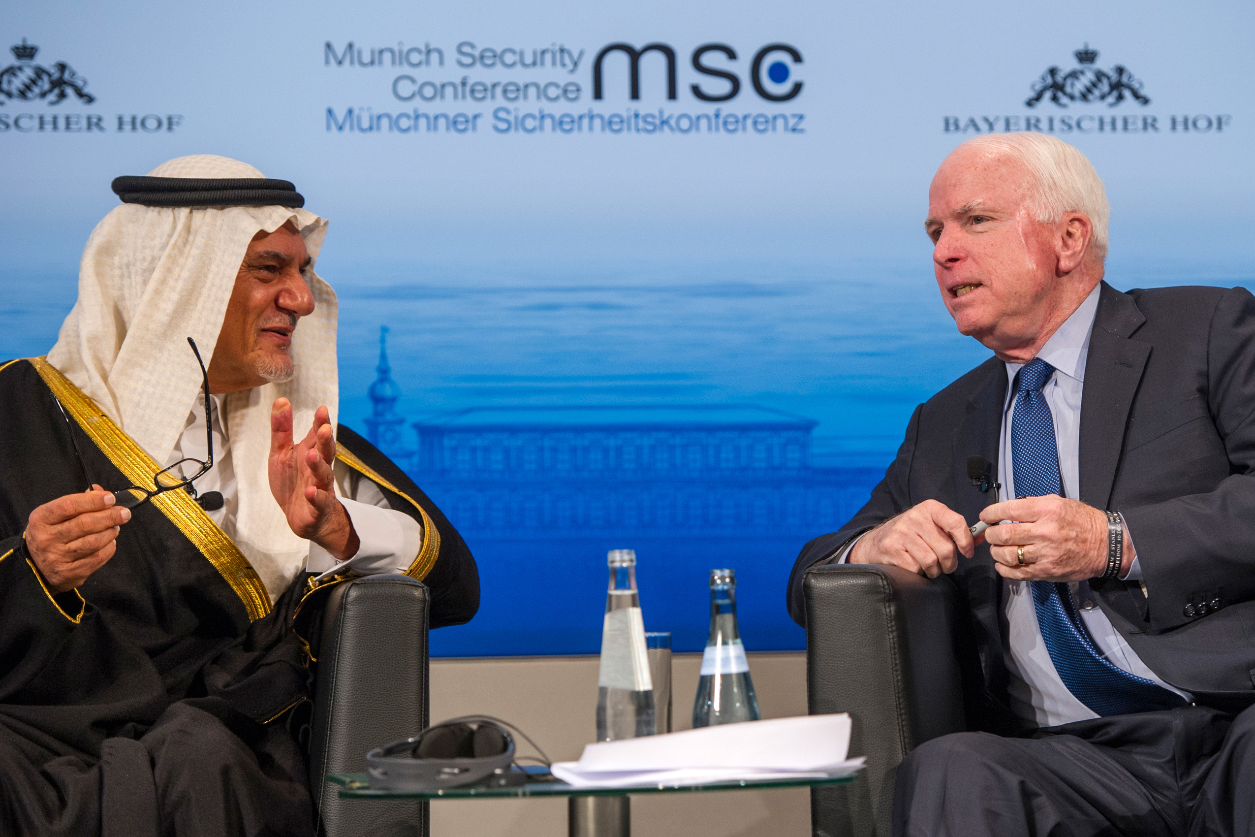 50th Munich Security Conference 2014: Prince Turki Al Faisal bin Abdulaziz Al Saud and John McCain: Prince Turki Al Faisal bin Abdulaziz Al Saud (Chairman, King Faisal Center for Research and Islamic Studies) and John McCain (U.S. Senator, Ranking Member of the Senate Committee on Armed Services and Member of the Senate Committee on Homeland Security and Governmental Affairs).